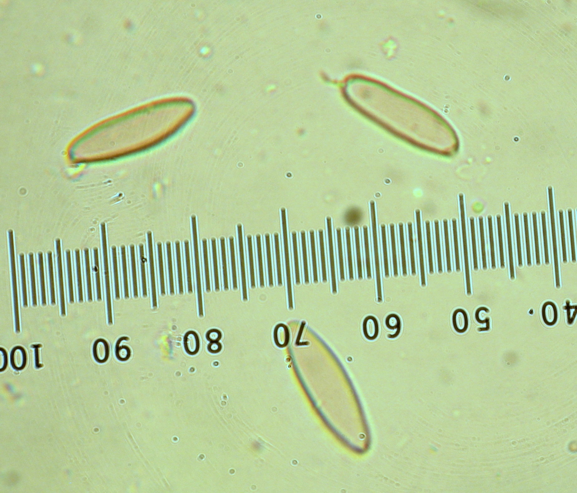 Spores of the bolete fungus Leccinum rugosiceps. Specimen found in Big Thicket, Polk Co., Texas, USA.